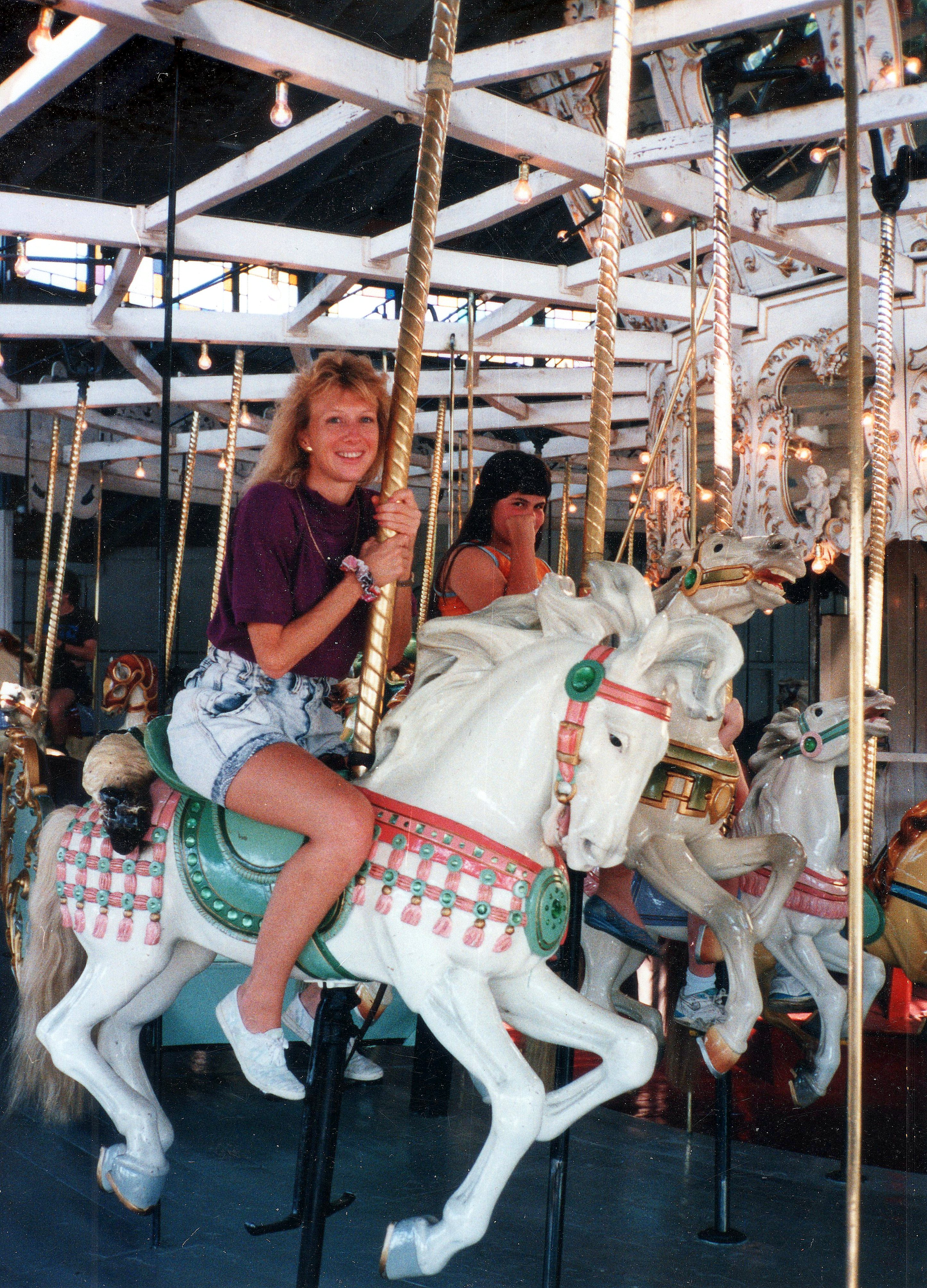 1895 Crescent Park Looff Carousel c.198o's